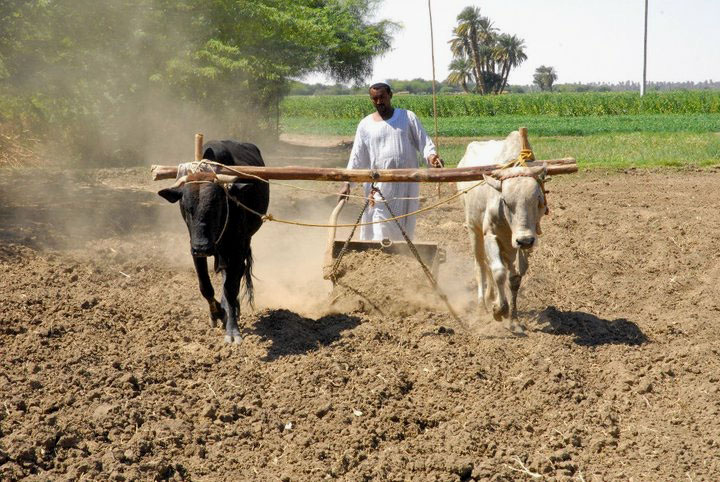 a Sudanese man preparing his land by traditional way This is an image of "African people at work" from Sudan